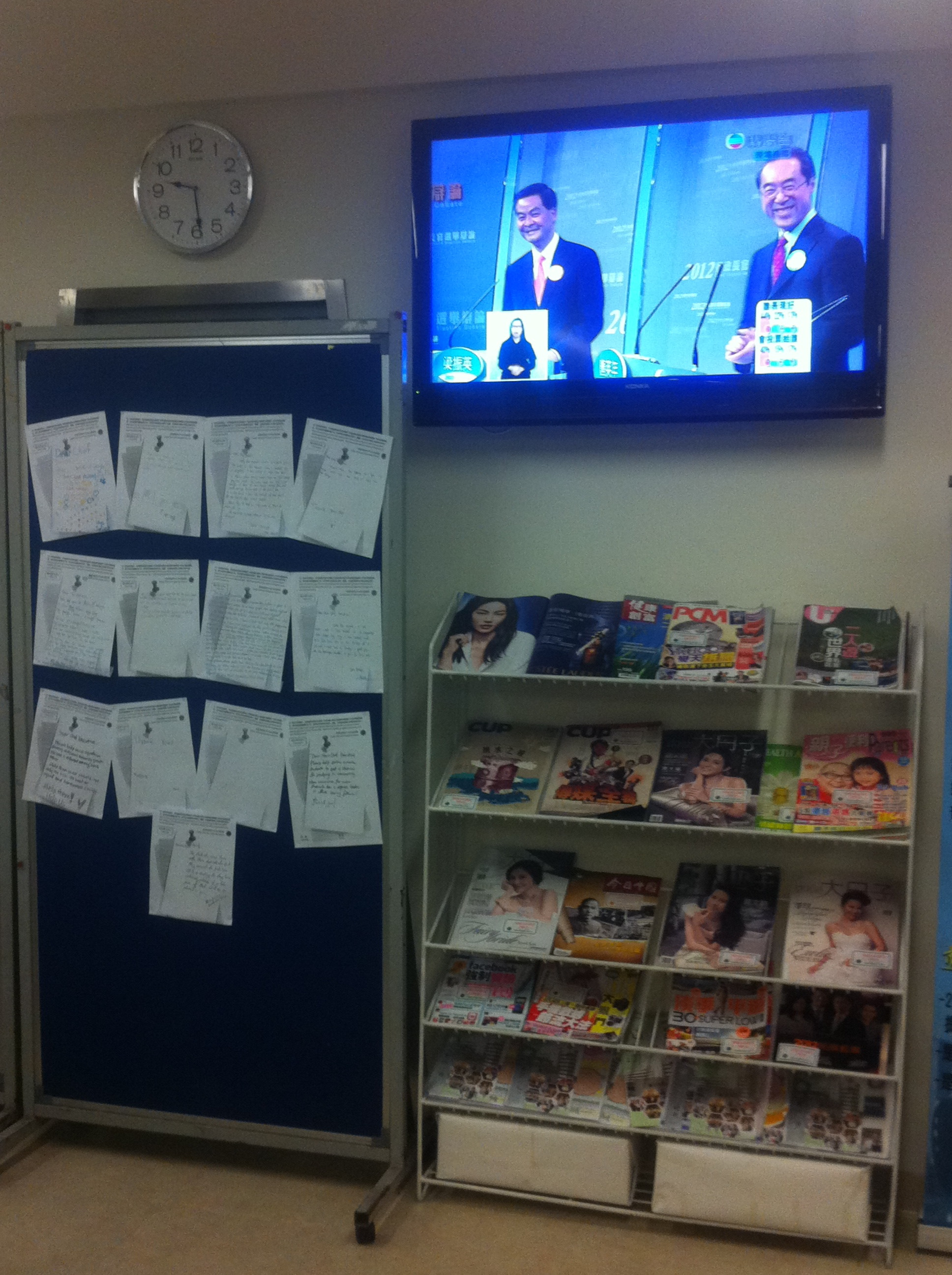 2012年行政長官選舉辯論 - Chief Executive Election Debate, Hong Kong